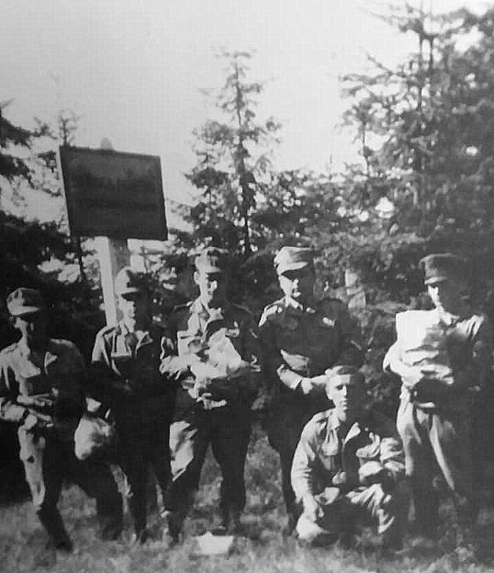 WOP post in Jakuszyce